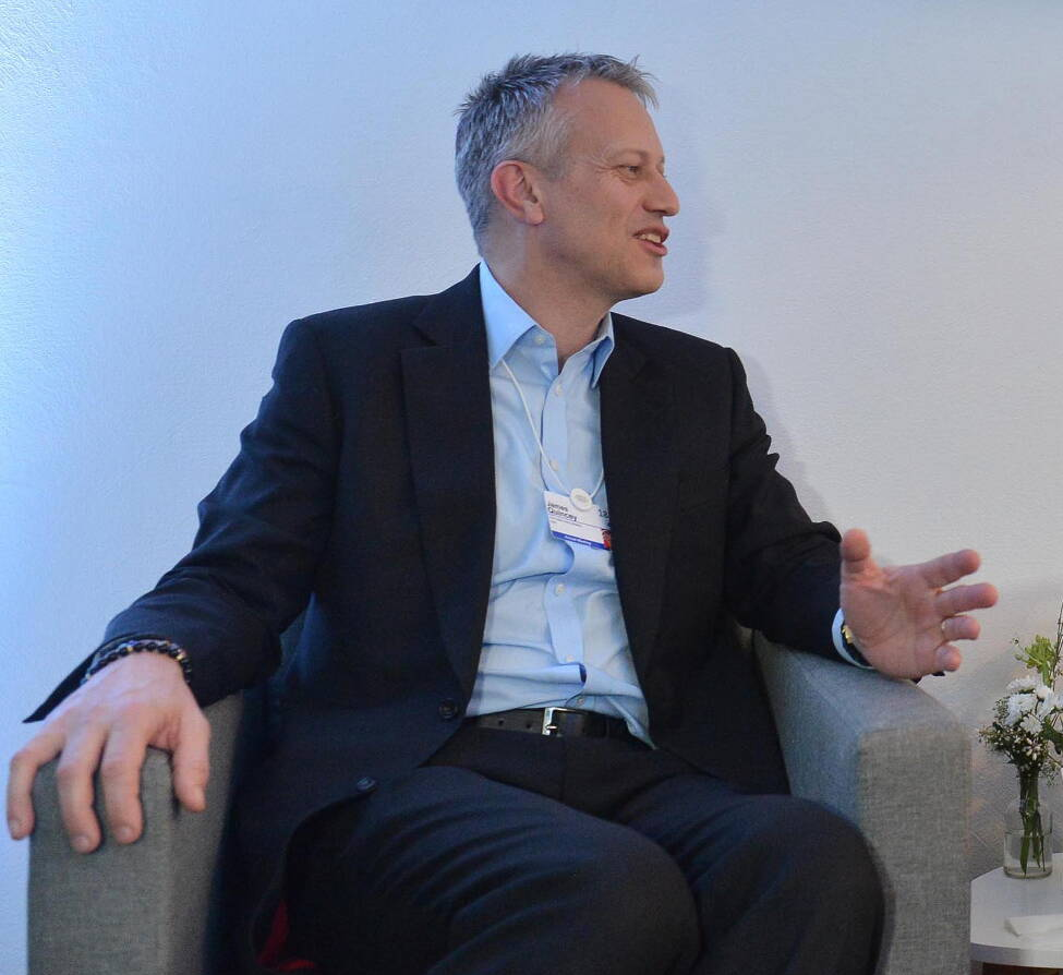 Mauricio Macri alongside James Quincey in Davos, January 2018